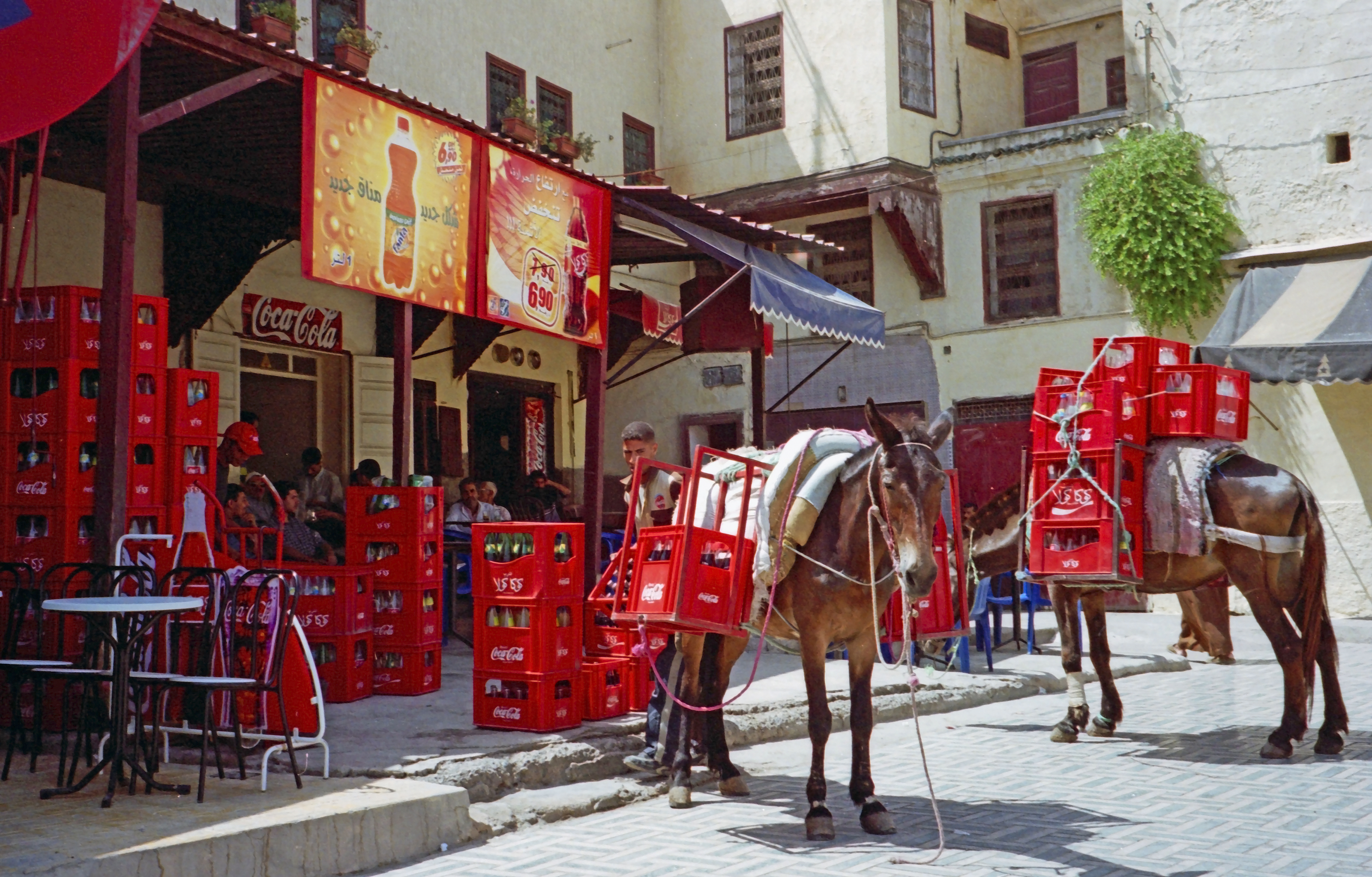 The Fez medina in Morocco is closed to motorized traffic, so donkeys are used to carry goods, Coke Cola has 400 donkeys they use to deliver their products, not all working at once. Walking through the medina is like going back in time, a really great experiance.